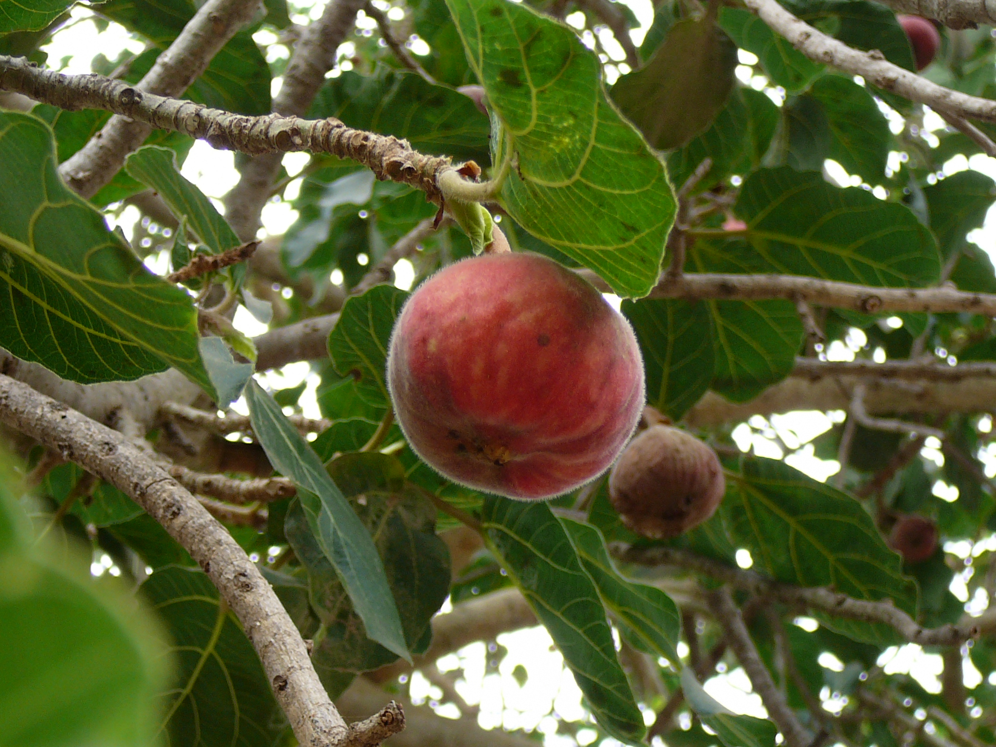 Sycamore Fig, fig-mulberry